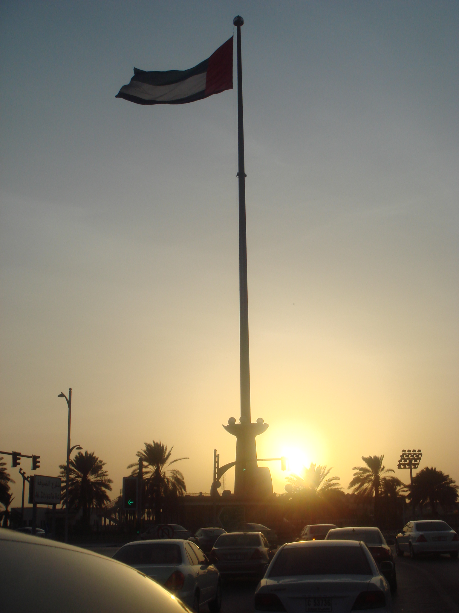 emirates flag in Jumeirah road in dubai